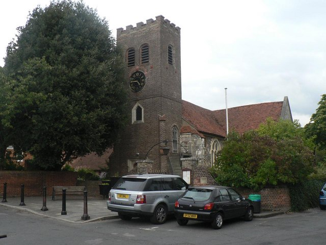 Shepperton: parish church of St. Nicholas. The parish church of Shepperton stands some distance from what would now be considered the village centre – this is Old Shepperton, about ½ mile southwest from the main shopping area and railway station. It may be that the arrival of the railway drew the main business of the village nearer to the terminus.